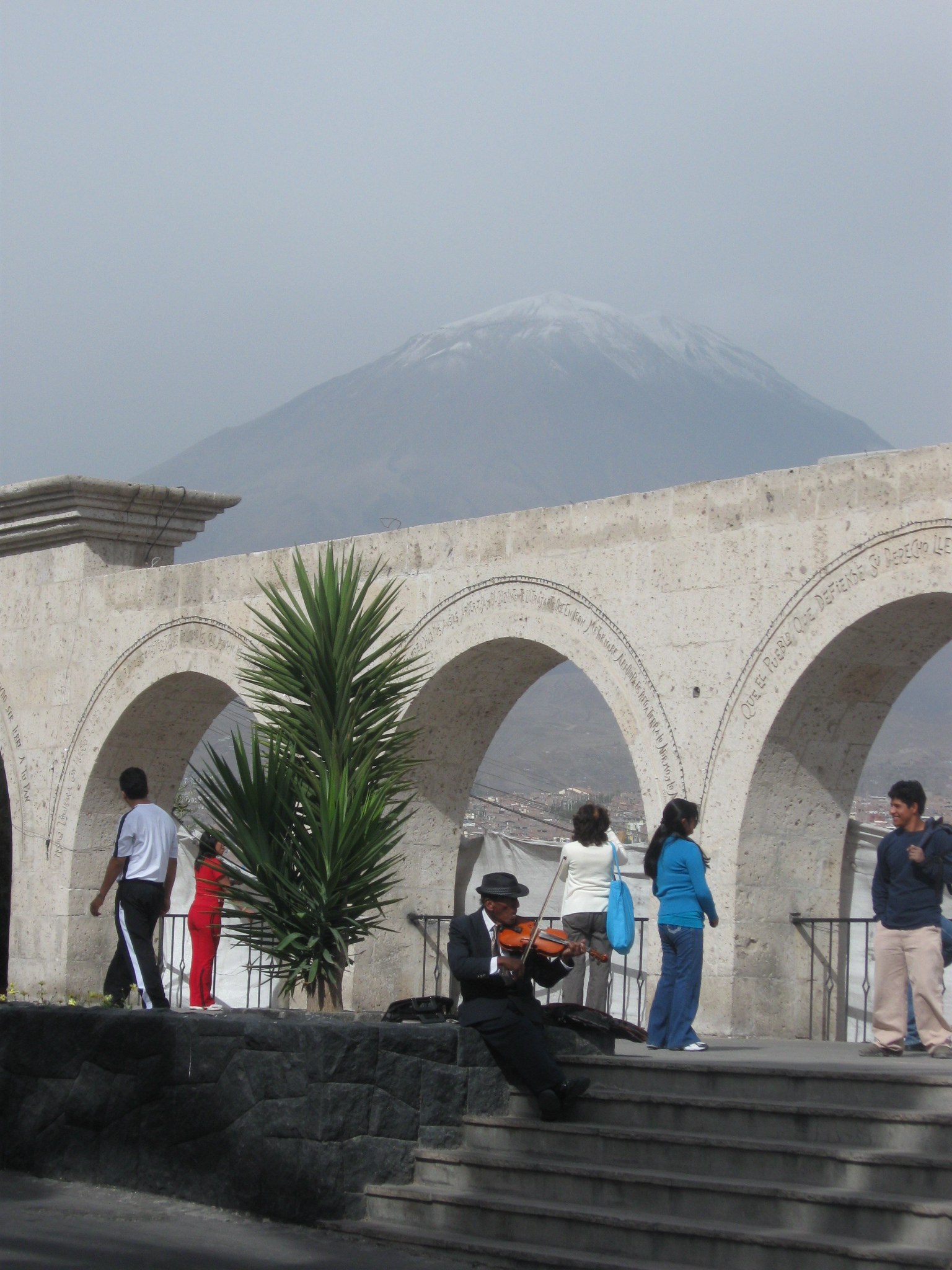 fines de 2010